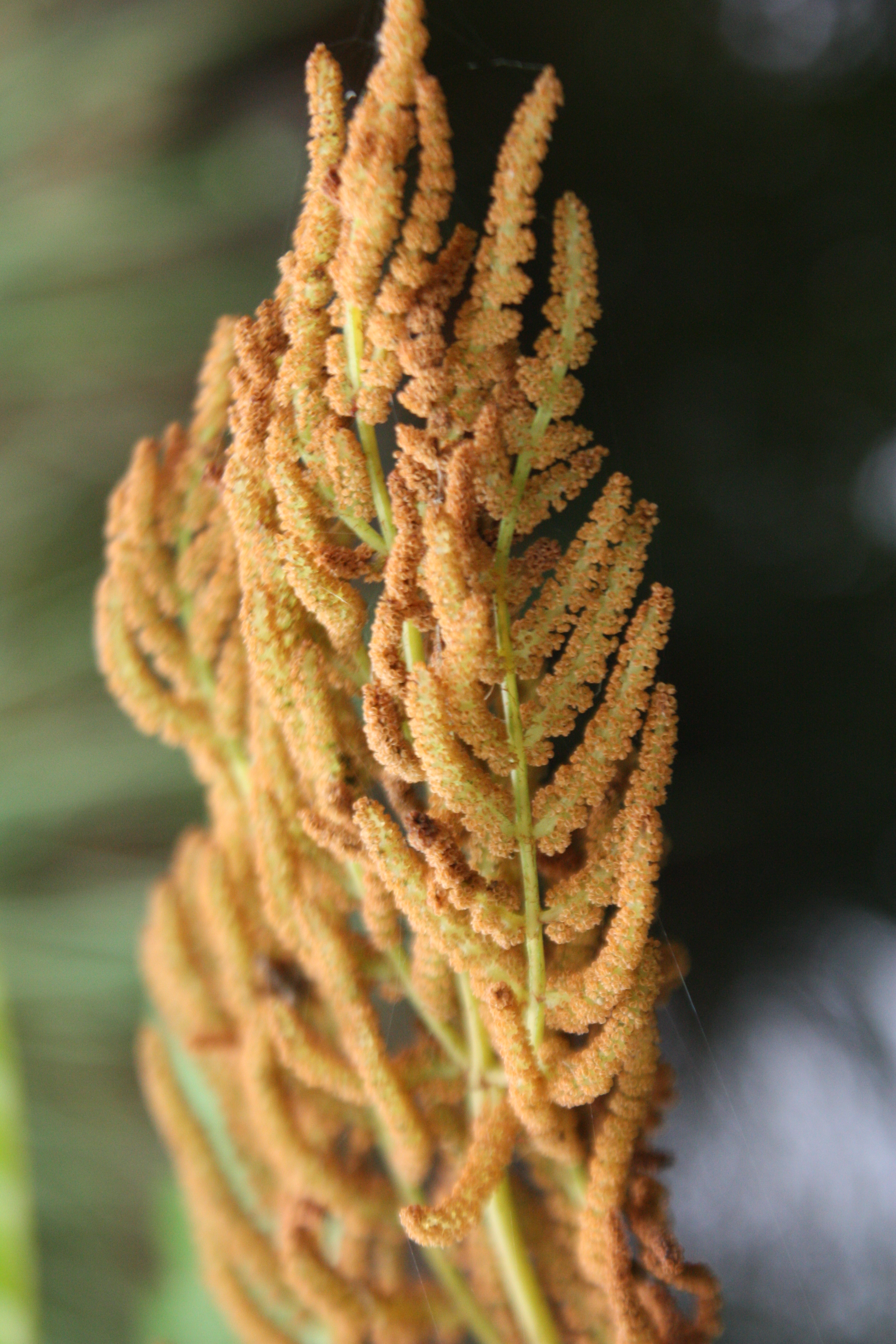 Osmunda regalis, Poland, Gać (gmina Główczyce) near forest road, Słowiński Park Narodowy.